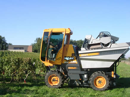 Machine à vendanger (IFV ©)